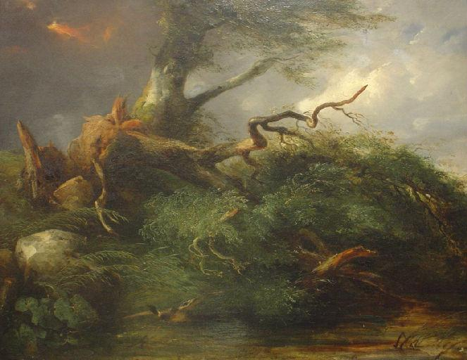 a stormy landscape illustrating La Fontaine's fable of the oak and the reed.